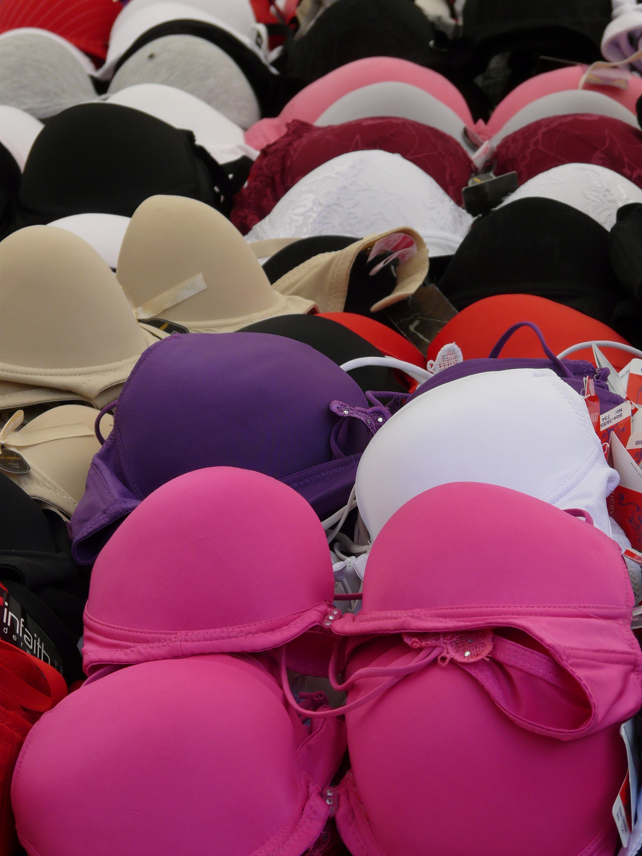 Brassiere